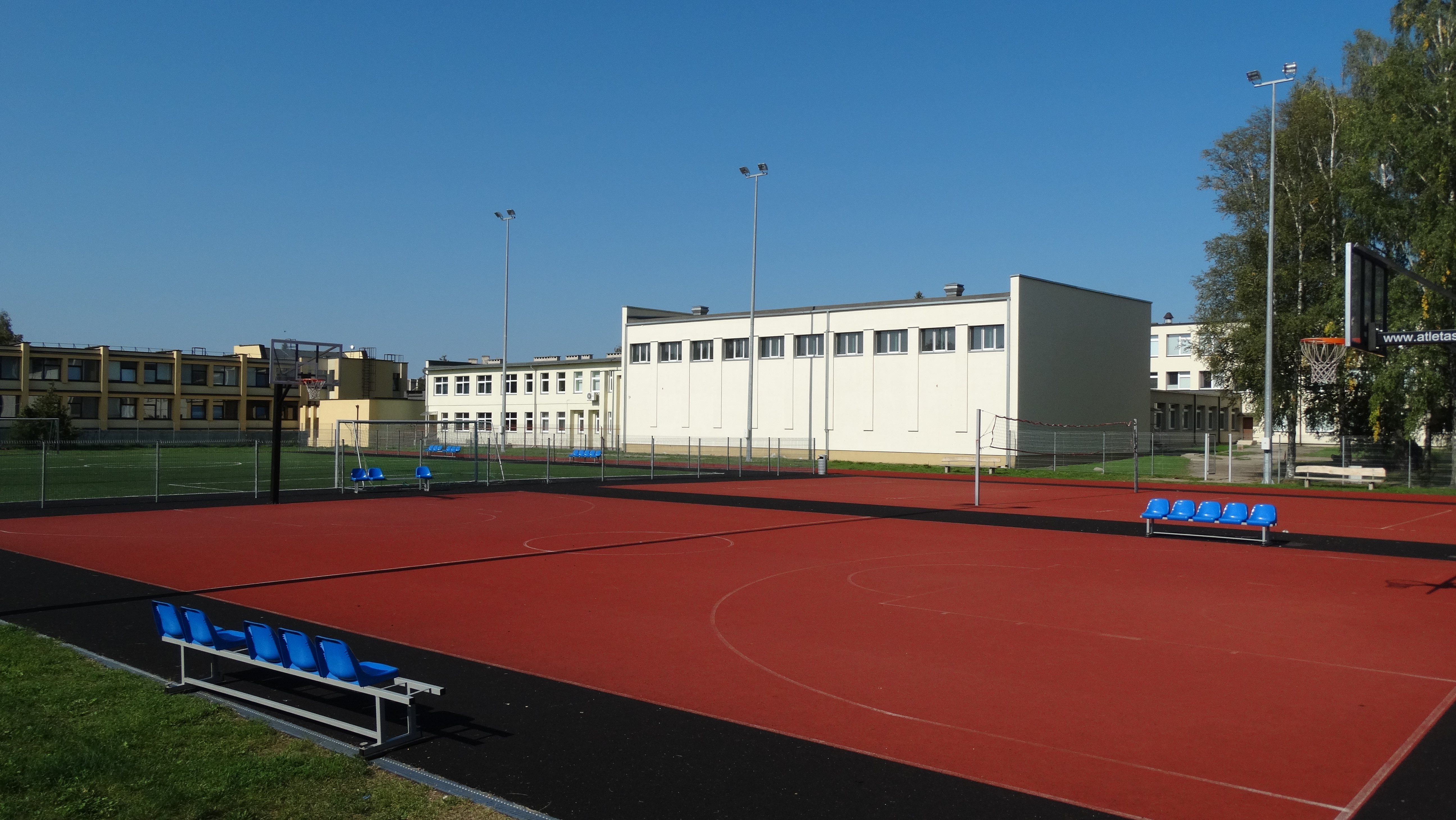 „Ąžuolas“ Gymnasium, Zarasai, Lithuania